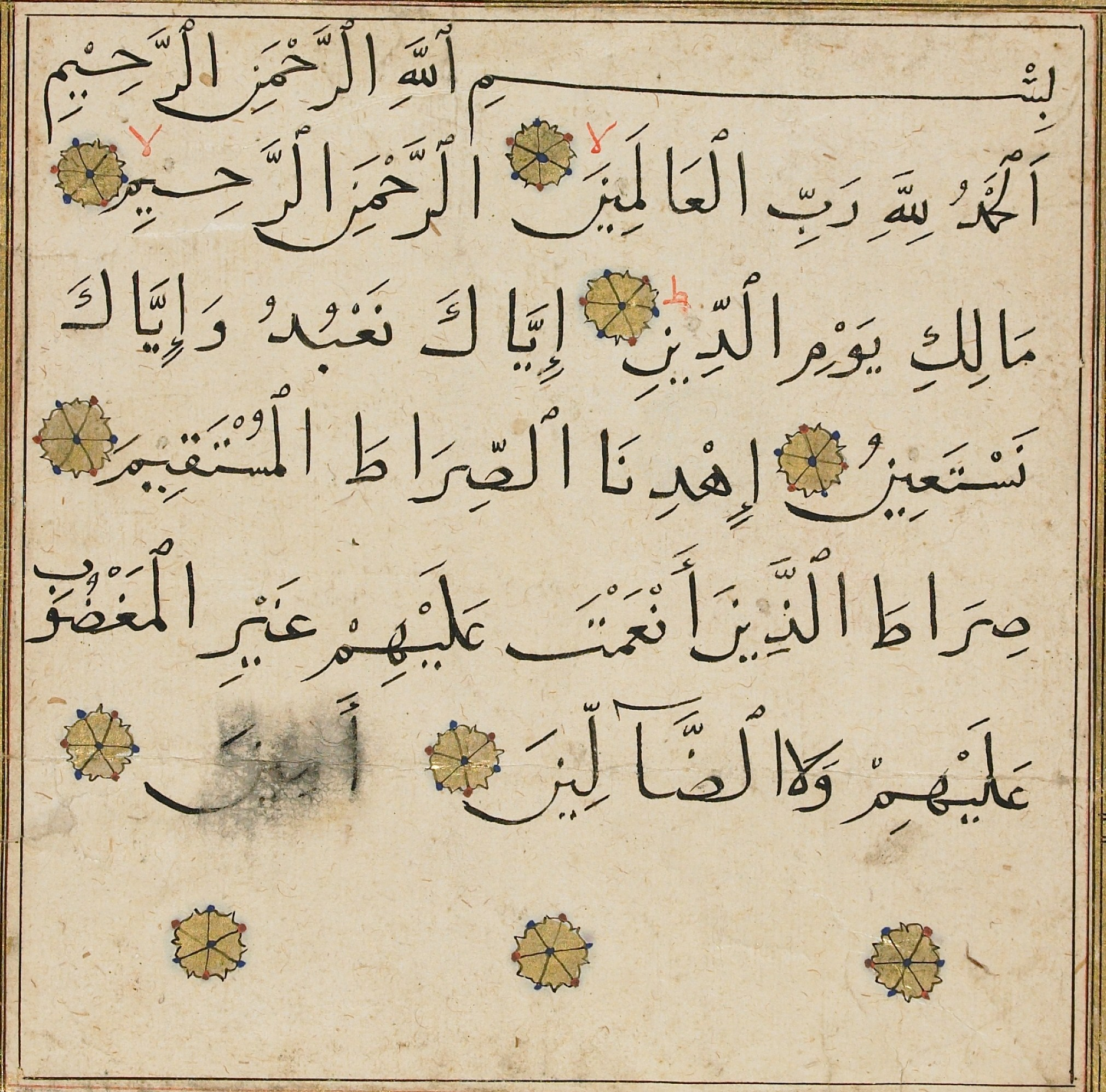 Dimensions of Written Surface: 15.4 (w) x 15.5 (h) cm Script: naskh This Qur'anic fragment contains the first chapter of the Qur'an entitled al-Fatihah (The Opening). Recited at the very beginning of the Qur'an, this surah proclaims God as Gracious and Merciful, the Master of the Day of Judgment, and the Leader of the straight path. The illuminated upper and lower panels contain a text, outlined in gold ink to let the plain folio show through, stating that this surah is the opening of the Holy Book (Fatihat al-Kitab al-'Aziz) and contains seven ayahs revealed in Mecca. These illuminated cartouches contain gold vine and flower motifs interlacing on a blue background. In the right margin appear two gold and blue decorative roundels and one semi-roundel in the center. The text itself is written in the cursive script called naskh, and each verse is separated by an ayah marker consisting of a gold six-petalled rosette with blue and red dots on its perimeter. Both the script and the illumination are typical of Qur'ans produced in Mamluk Egypt during the 14th and 15th centuries. Above the first two ayah markers on the first line of text immediately after the initiatory bismillah appears the word la ("no") in red ink, indicating that the reciter must not stop at the places indicated. Finally, this fragment is particular in several ways: there are four extra verse markers at the very end of the surah, a mistake that has been rectified partially by the addition of the exclamatory, terminal praise amin ("Amen") between the last correct verse marker and the first additional marker. The spaces between the last three verse markers on the lowermost line remain empty.